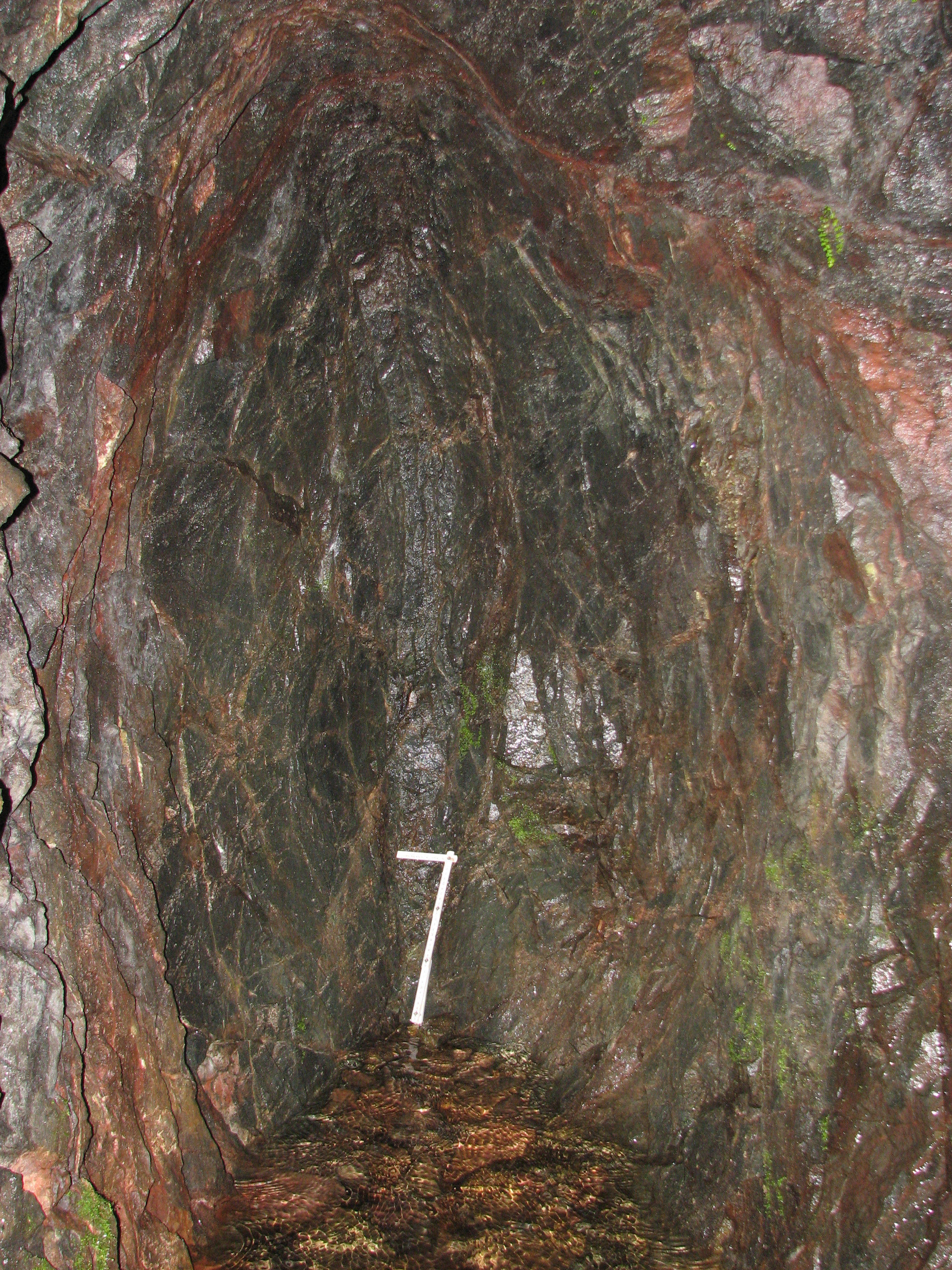 Adit front made by fire-setting, mine Hautes-Mynes, le Thillot, Voges, Lorraine. Scale: Bended part of folding rule = 10cm.